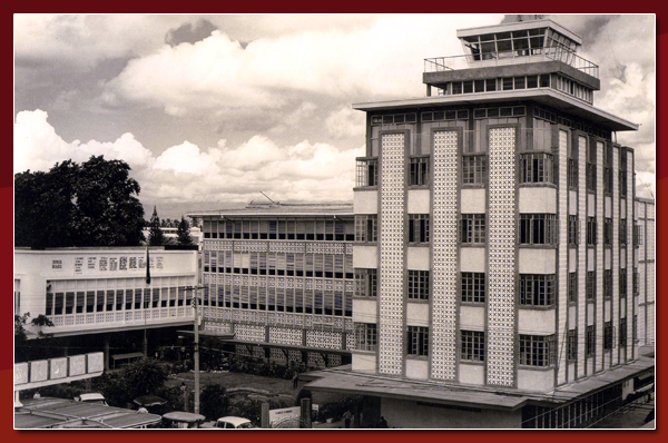 UM History